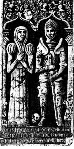 Kirsten Skav and Niels Trolle, Danish nobles of the 16th century